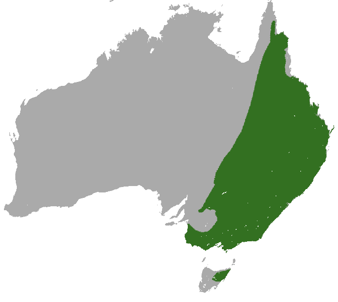 Eastern Grey Kangaroo (Macropus giganteus) range